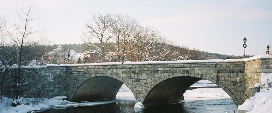 Edna Dean Proctor Bridge, Henniker, New Hampshire Taken 12/10/05 by Jokermage.